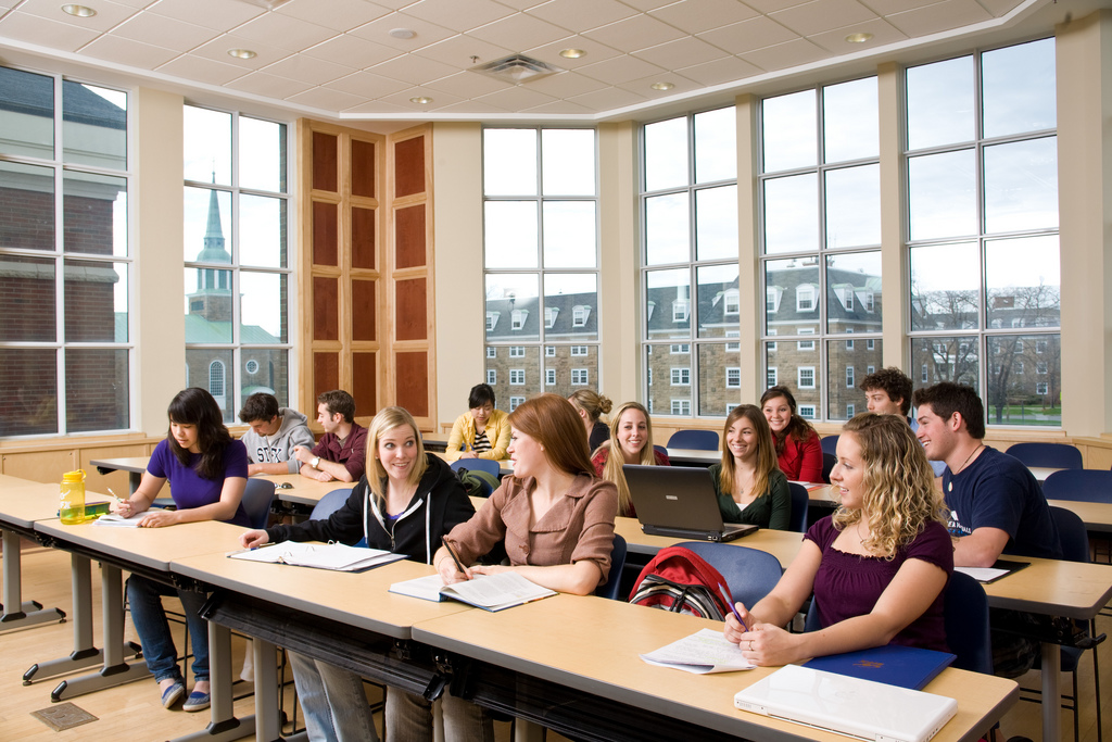 Physical Sciences Center Classroom